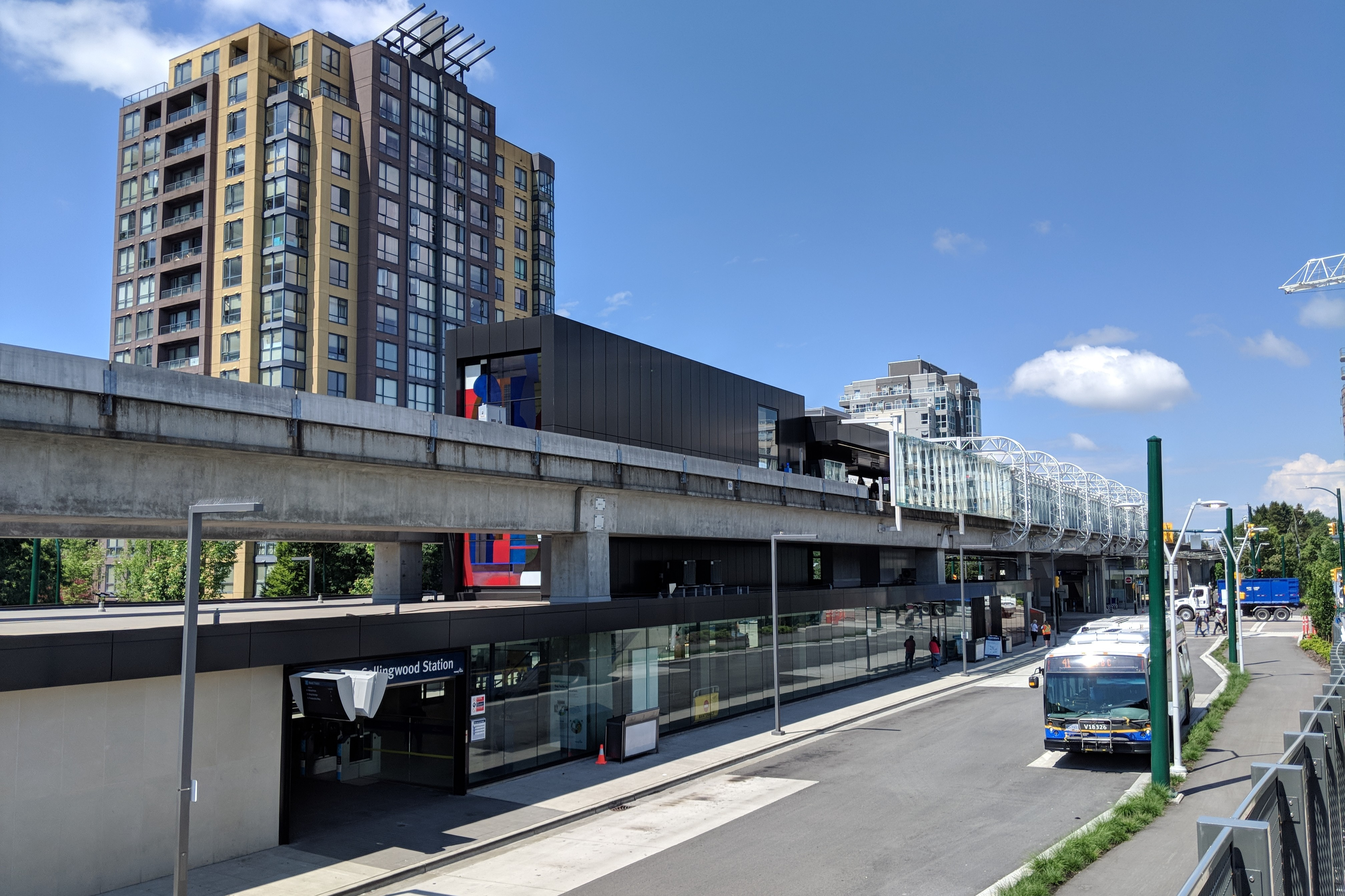 Joyce–Collingwood station viewed from the east. June 2019.